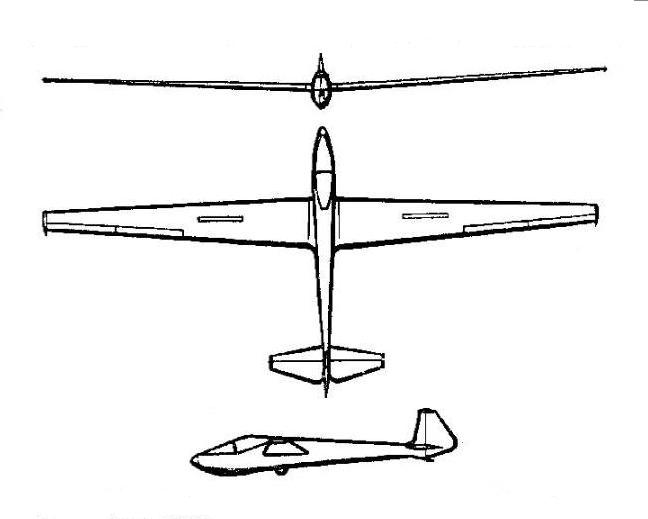 Glider BC-6 "Neringa"